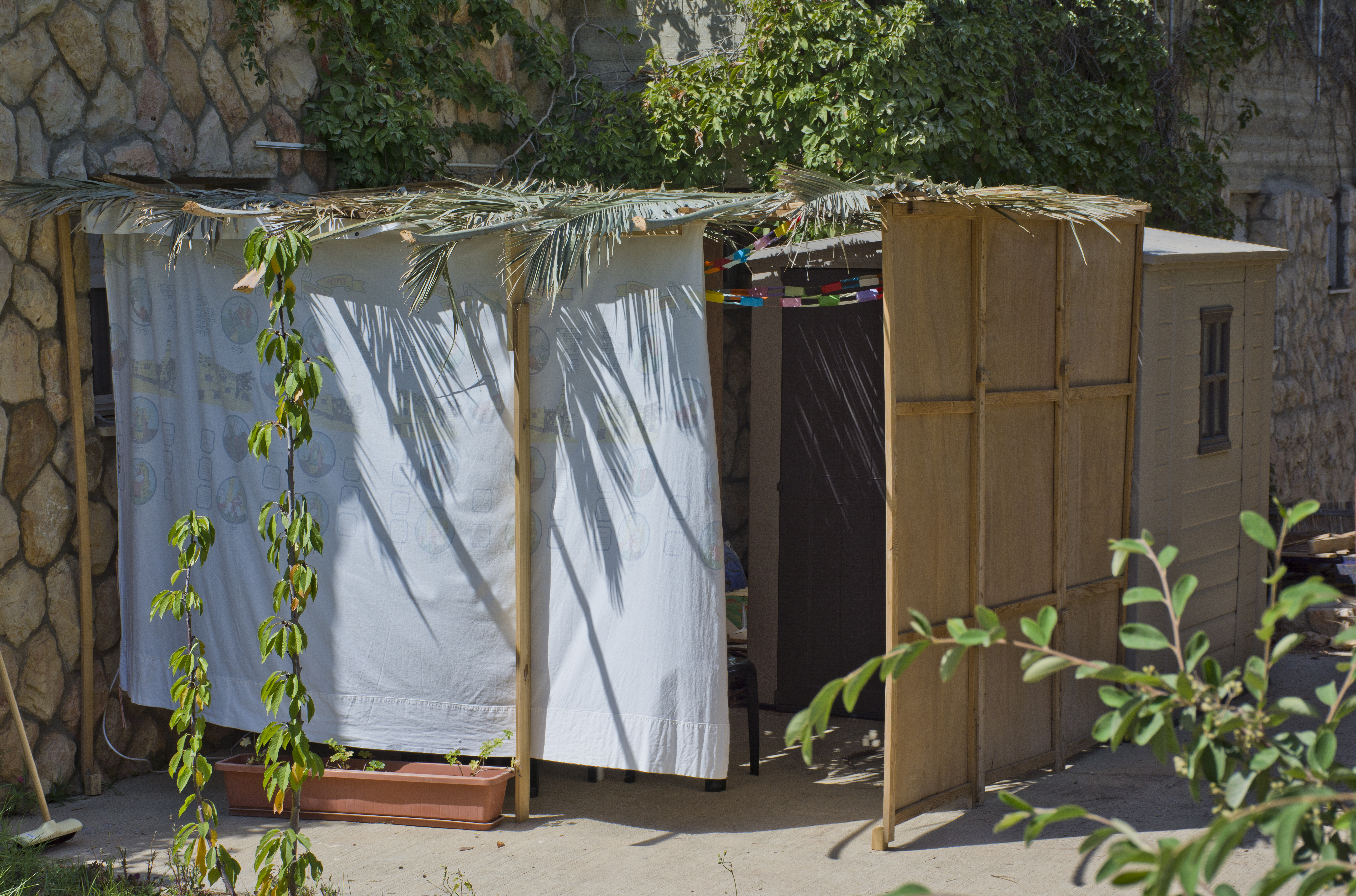 Sukkoth in Kfar Etzyon, Gush Etzyon, Israel